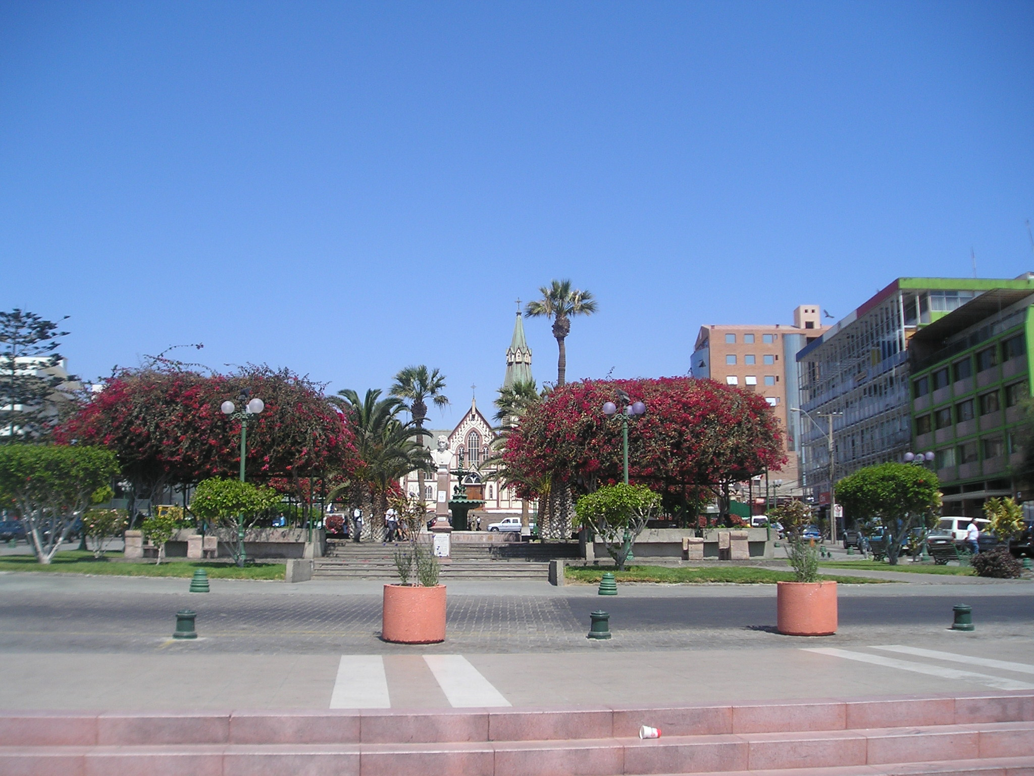 Arica, Chile - Plaza Colon with San Marcos church